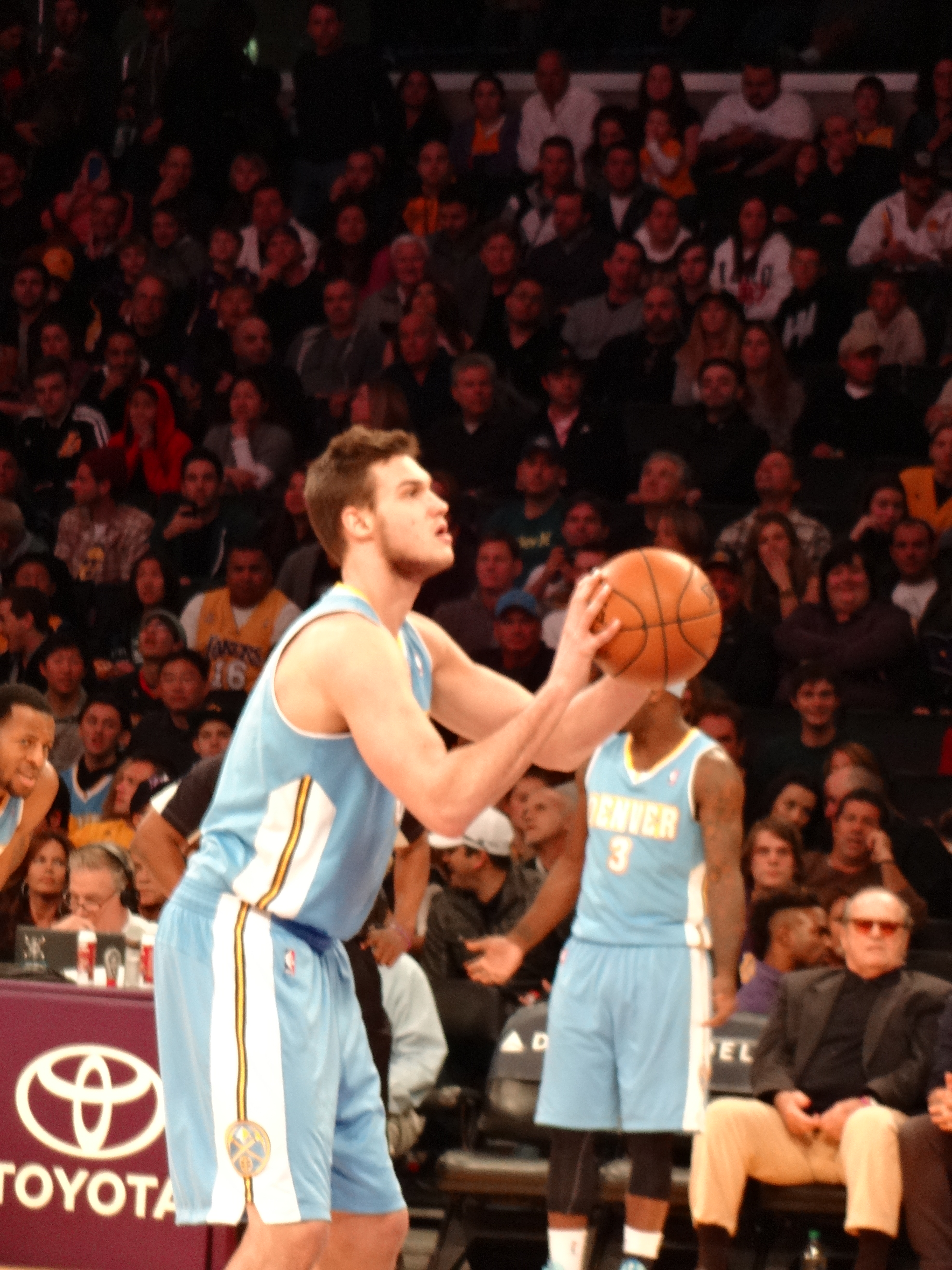 Los Angeles Lakers vs Denver Nuggets at the Staples Center. Danilo Gallinari taking a free throw.